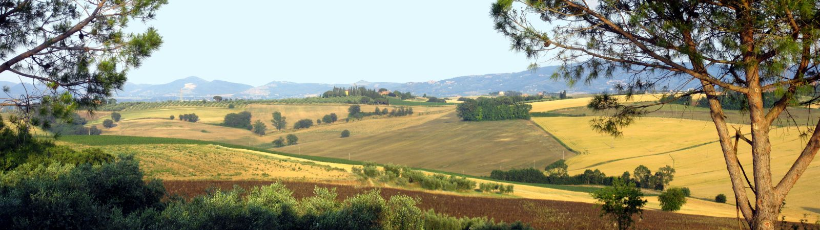 Umbrian panorama Source antmoose, 24 June 2005 released through Creative Commons by the photographer